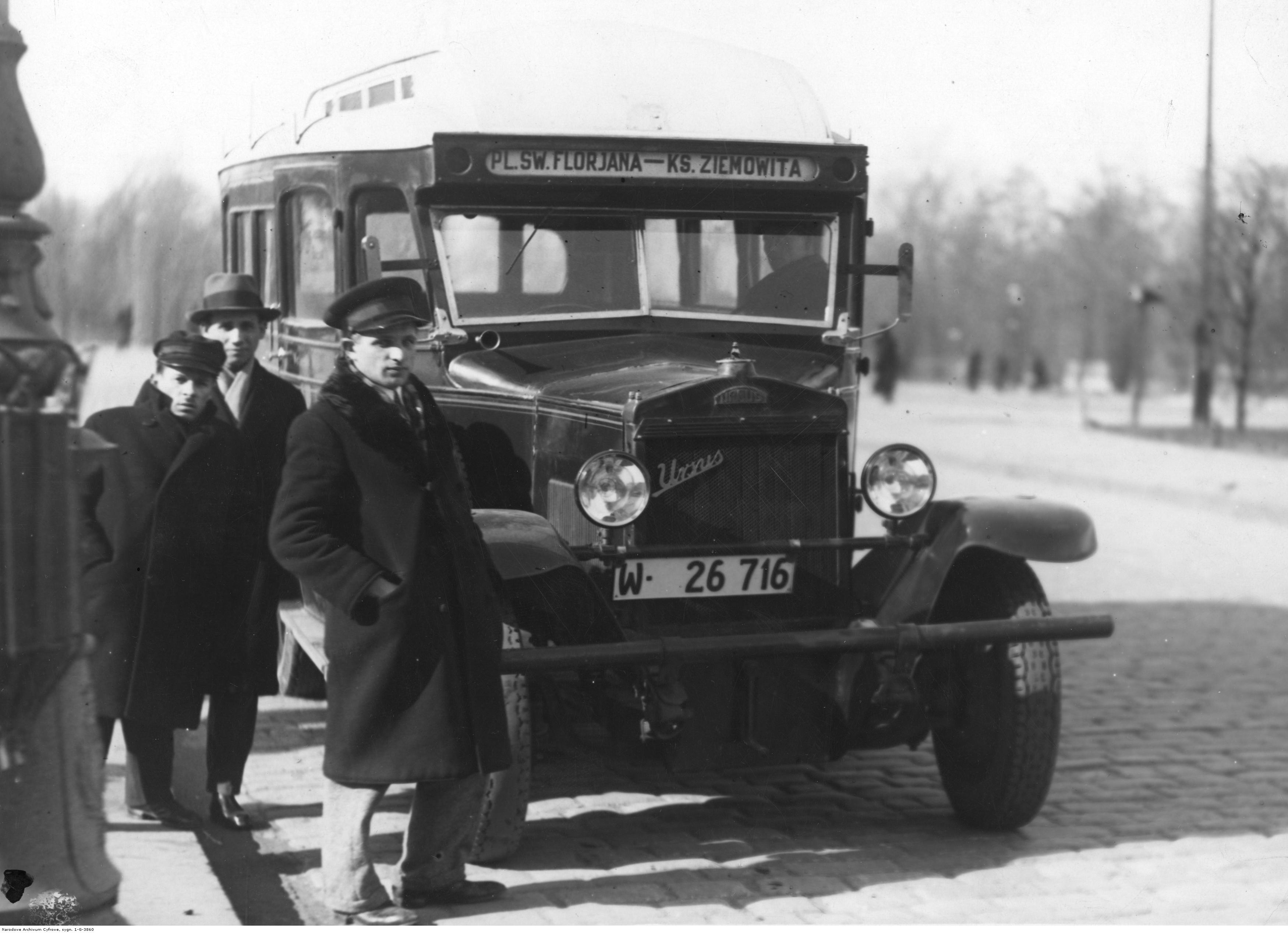 Ursus AW bus (reg. W 26 716) in Warsaw, Poland. Społeczna Komunikacja Autobusowa (SKA) from Warsaw operator.